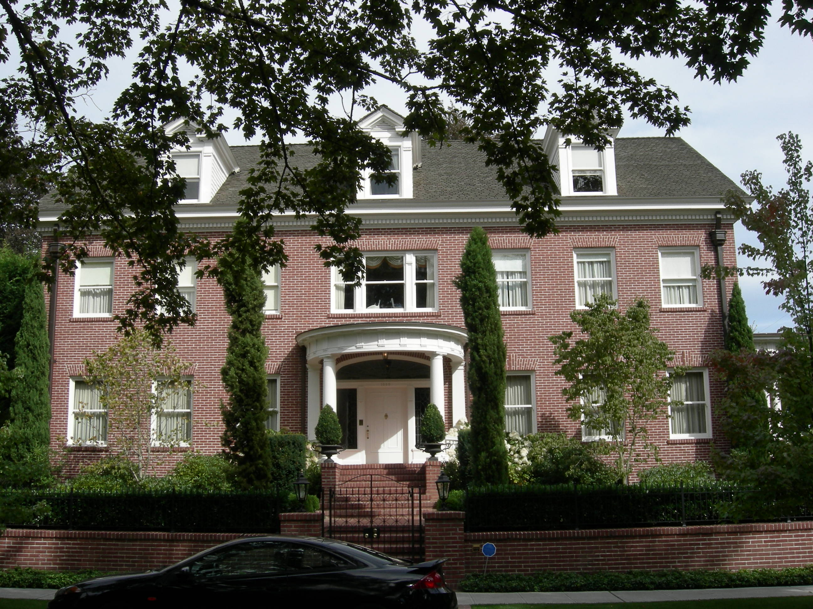 1000 14th Avenue E, Seattle, Capitol Hill, Seattle, Washington, USA. One of the houses on what was historically known as "Millionaire's Row", the roughly two blocks on 14th Avenue E leading to the south entrance of Volunteer Park. This was the home of Nathan Eckstein. See Summary for 1000 14th AVE / Parcel ID 1346300190, Seattle Department of Neighborhoods, for further information.